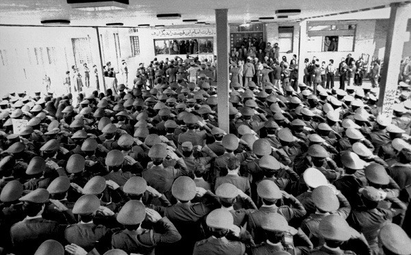 Air force of Iran pledge and salute to Ruhollah Khomeini, three days before Shah's regime collapse